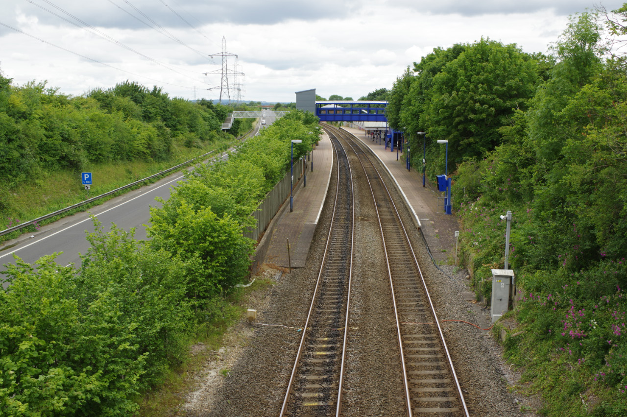 Wendover Station. Wendover station was opened by the Metropolitan Railway in 1892 and, although later on the Great Central Railway's main line north to Sheffield, it continued to be part of the Metropolitan Line until 1961, when London Transport took the decision to pull out of running services beyond Amersham rather than electrifying to Aylesbury. Today it is served by Chiltern Railways trains from Marylebone. To the left is the much newer A413 Wendover by-pass opened in 1998.